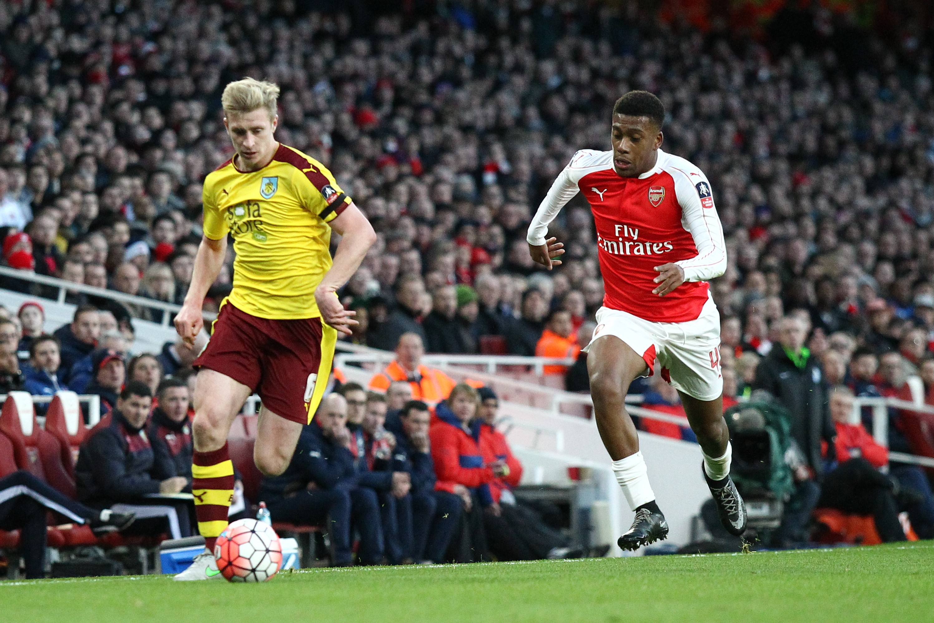 Alex Iwobi of Arsenal chases down Ben Mee of Burnley.